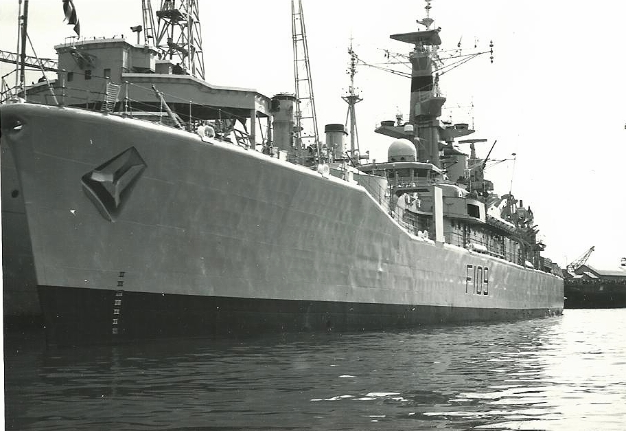 "Leander" Class (Batch 1) Type 12 I (Improved) (but originally designated Type 81) General Purpose Frigate "HMS Leander", 2,500 tons, launched 1961, completed 1963. It is moored next to the frigate depot ship "HMS Defiance". It has been converted to the Australian Ikara ant-submarine missile system, the 4.5" gun turret having been removed. At the Plymouth Navy Day, Devonport Dockyard, 08/77.